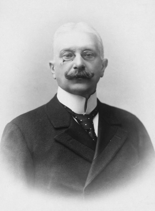 Paul Gautsch von Frankenthurn (1851–1918), Austrian statesman who served three times as Minister-President of Cisleithania.